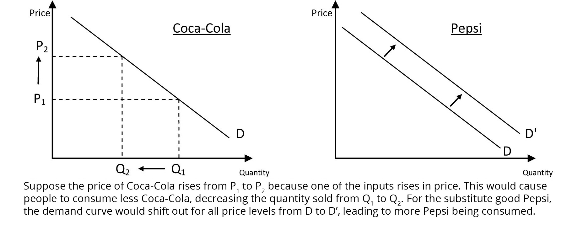 Graph depicting the supply and demand for susbstitute goods